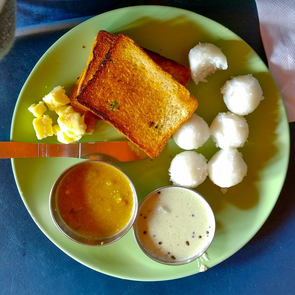 Kadubu is a local dish of Coorg/kodagu, a district in the state of karnataka, India. This plate contains Kadubu (steamed Rice Balls) with some Chutney and Kadli saar (chana curry) and the toasted Bread with Butter.